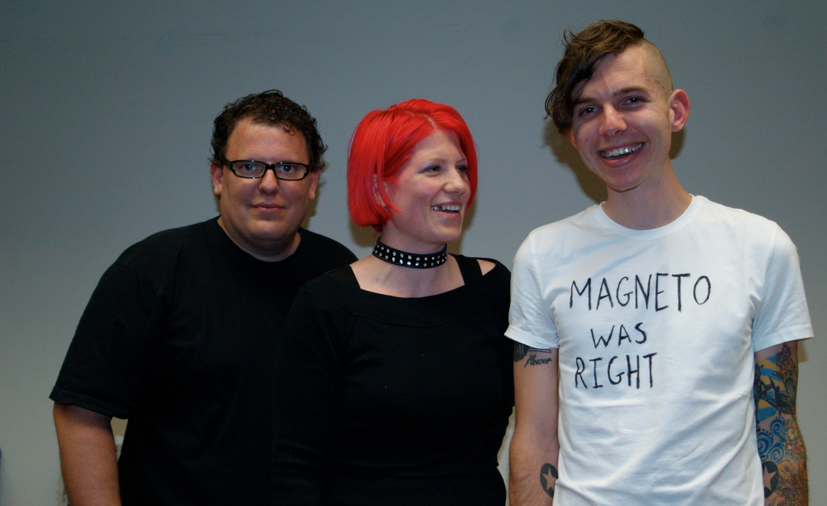 lizvlx & Hans Bernhard with Guantanamo Bay Prison Guard Chris Arendt in Vienna, 2009 after a SUPERENHANCED Performance and lecture at das Weisse Haus